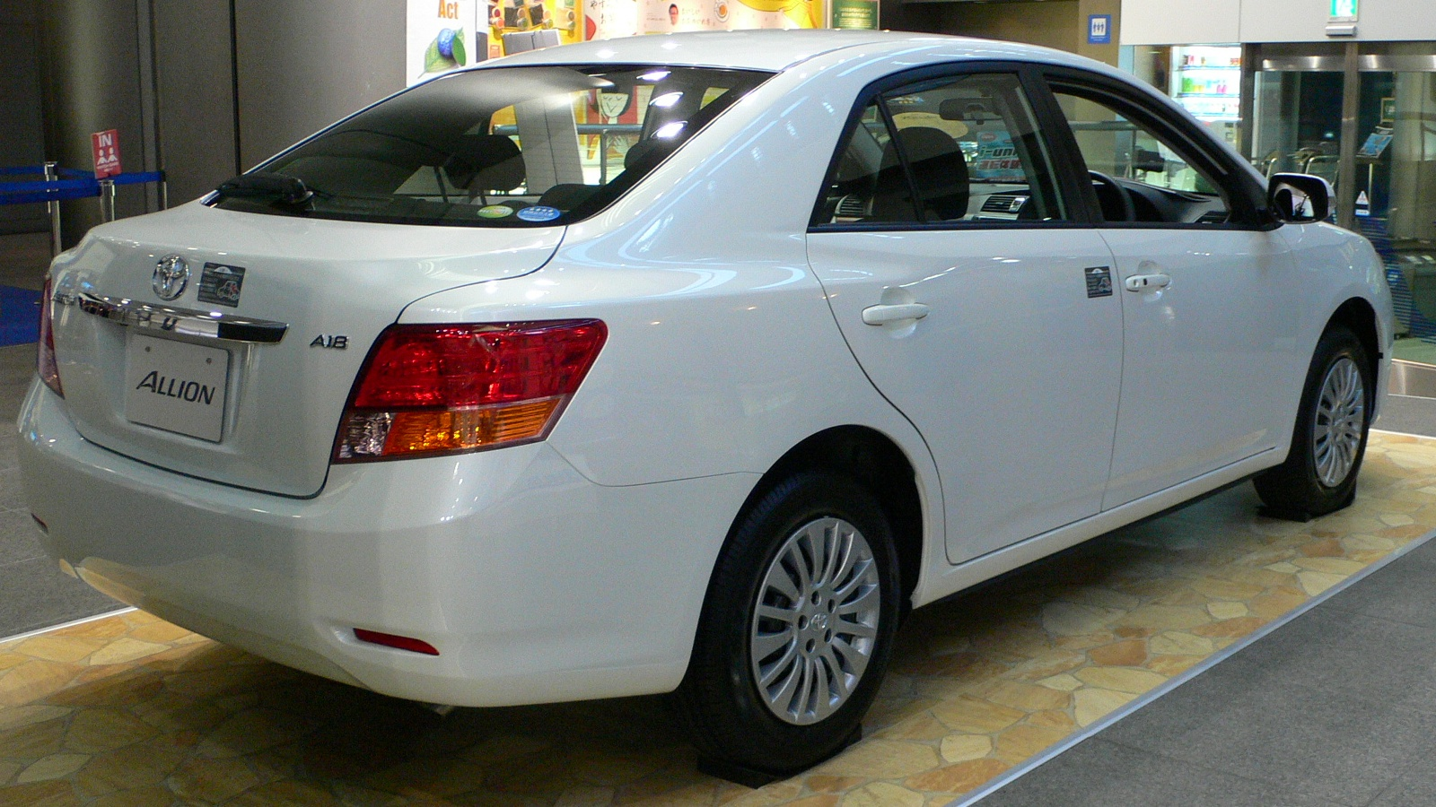 2nd generation Toyota Allion (2007 - ) photographed in AMLUX